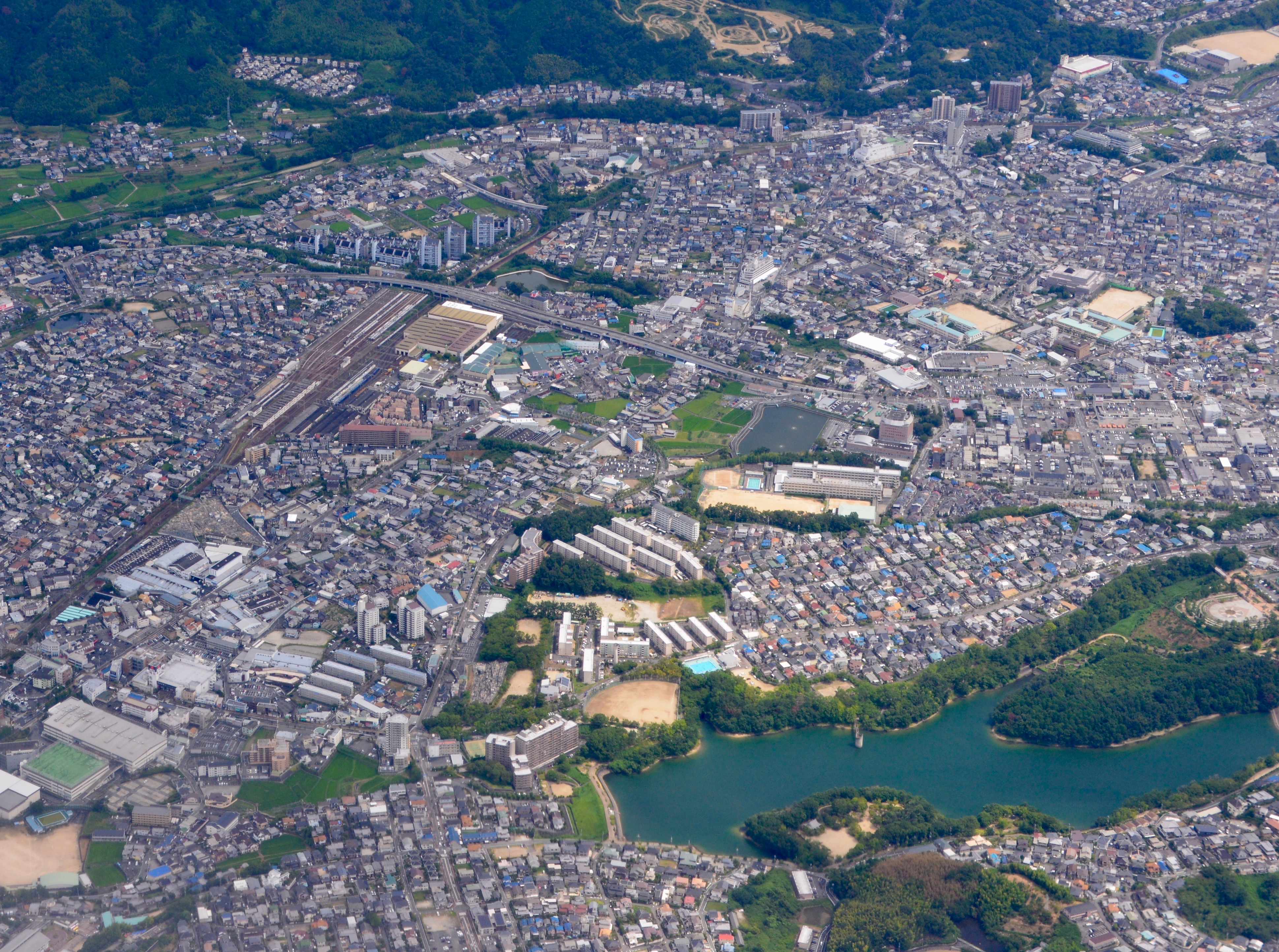 河内長野市中心部。伊丹空港へ向かう機内より撮影